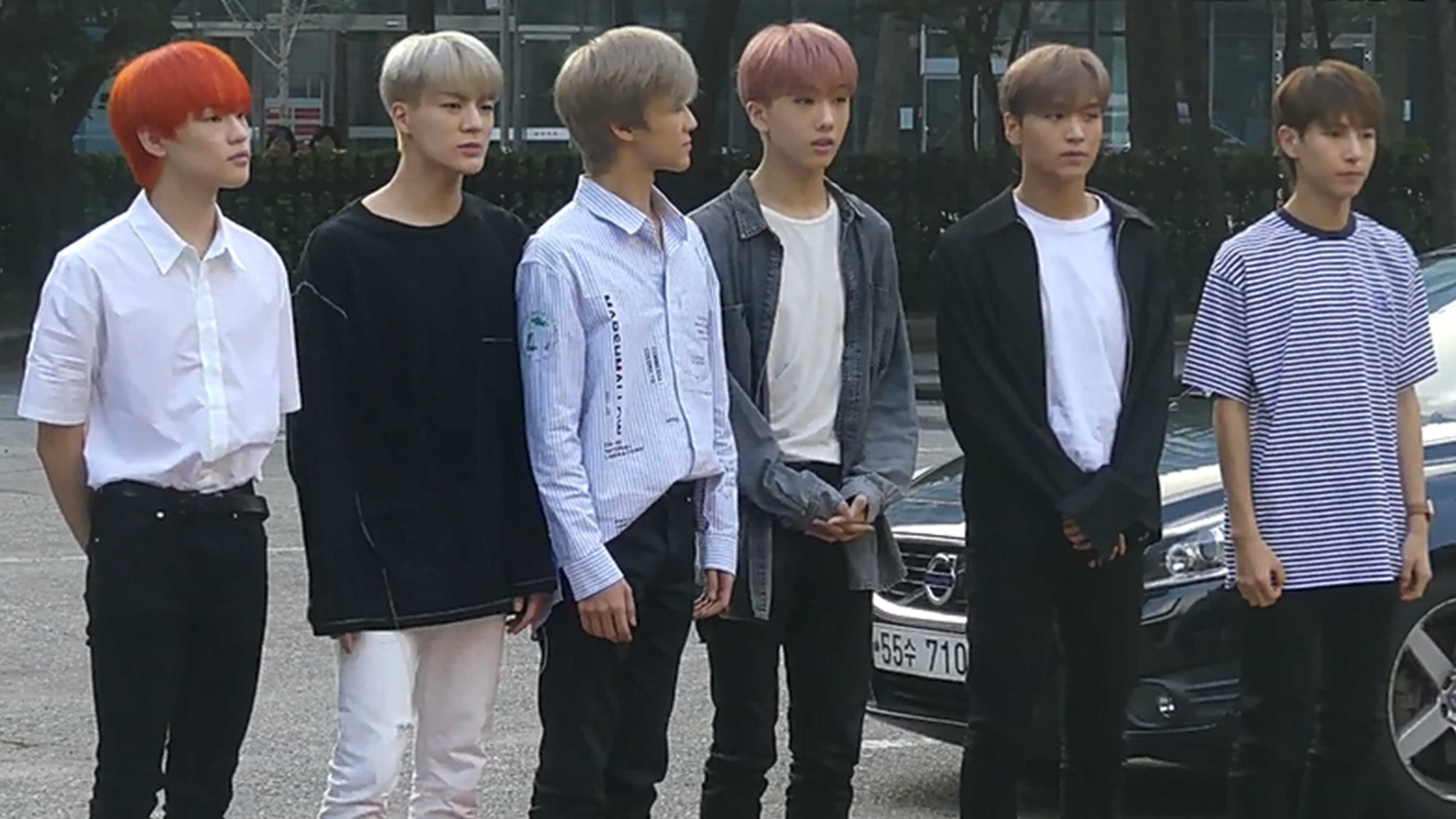 NCT Dream going to a Music Bank recording on August 2, 2019. (L-R: Chenle, Jeno, Jaemin, Jisung, Haechan and Renjun.)